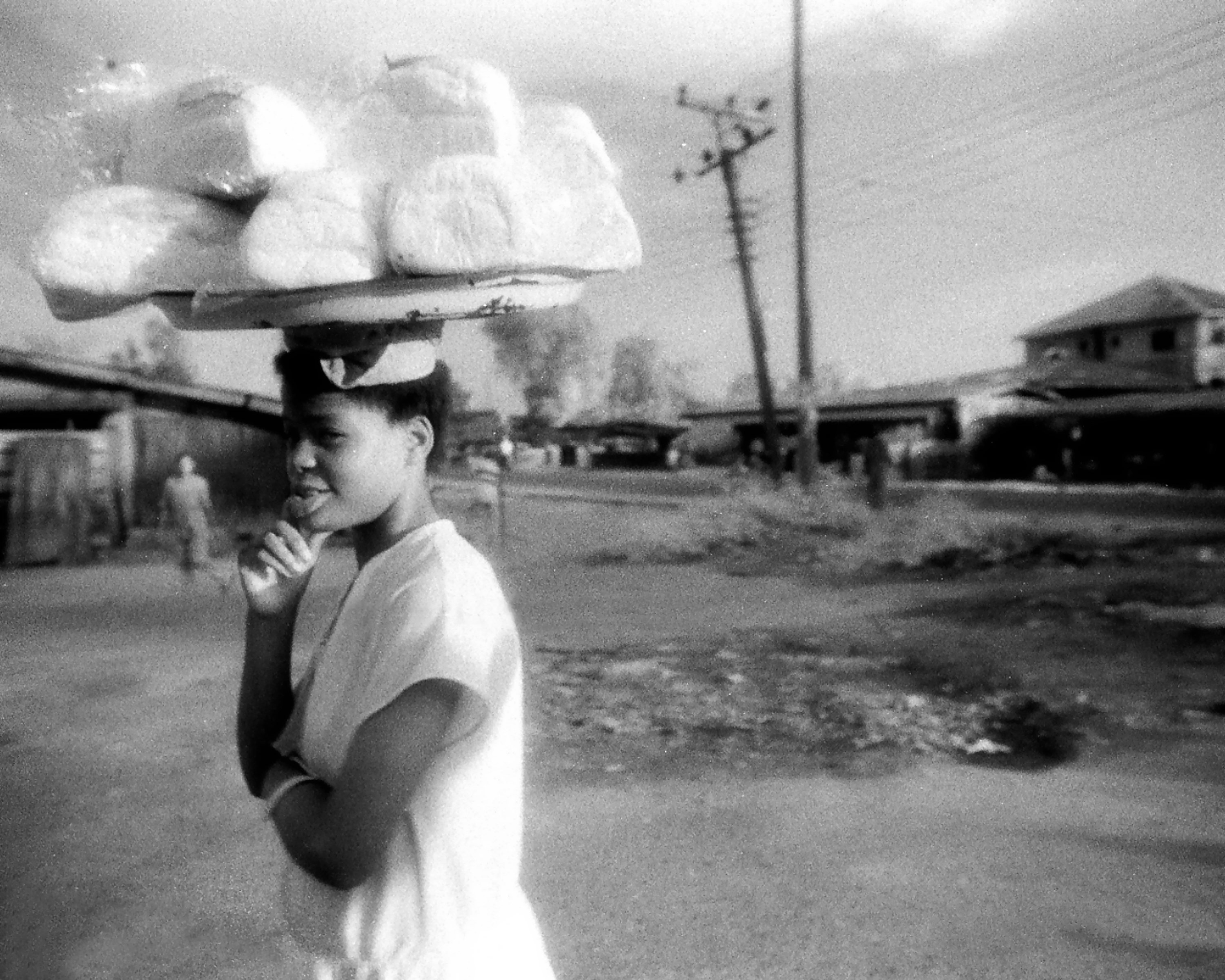 Robert Bluestein traveled to West Africa on a Humanitarian Mission and captured these images in infrared.